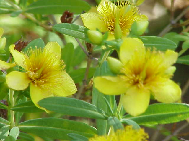 Species: Hypericum kalmianum Family: Hypericaceaa Image No. 3